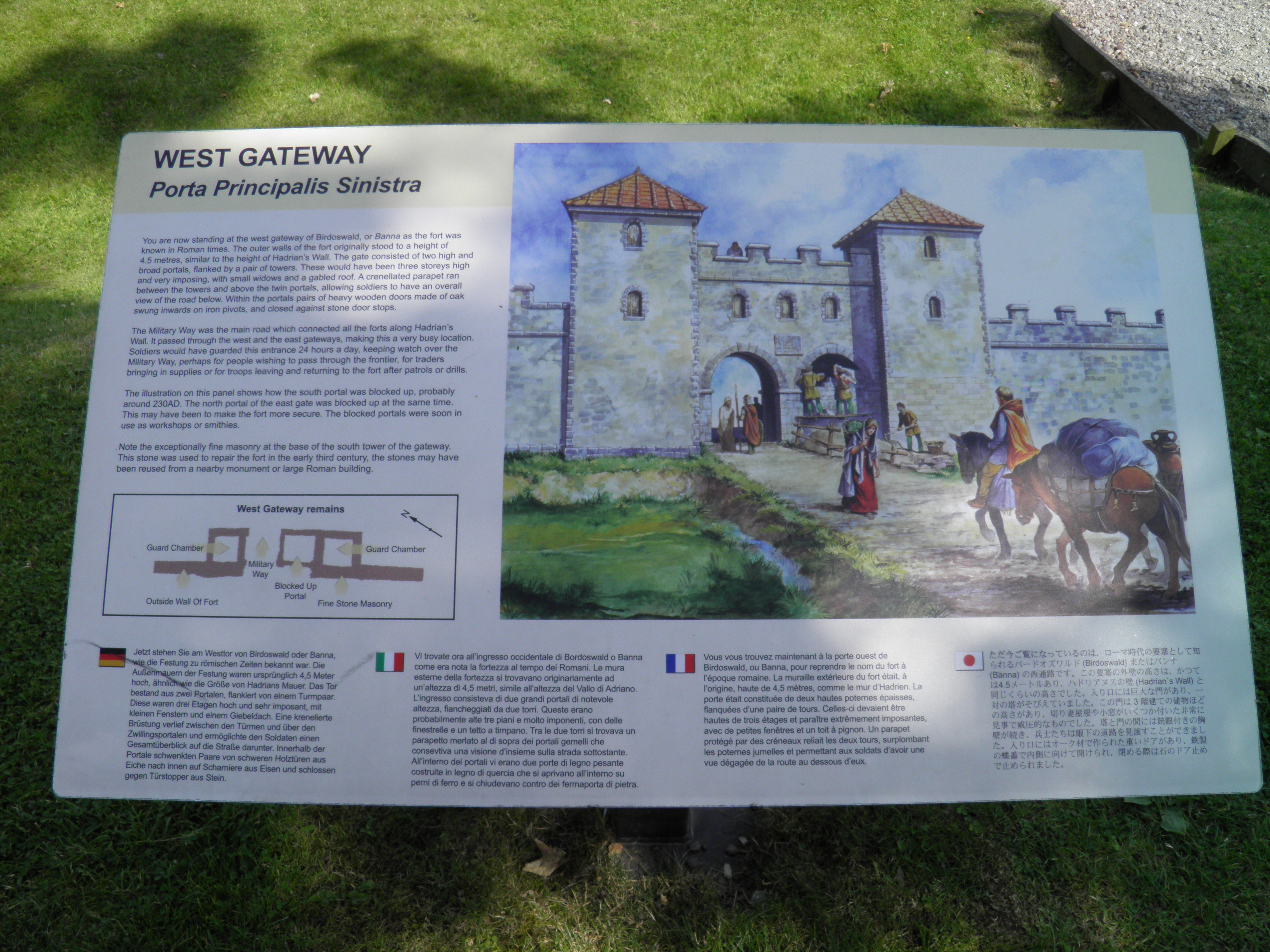 Birdoswald Roman Fort, Hadrian's Wall